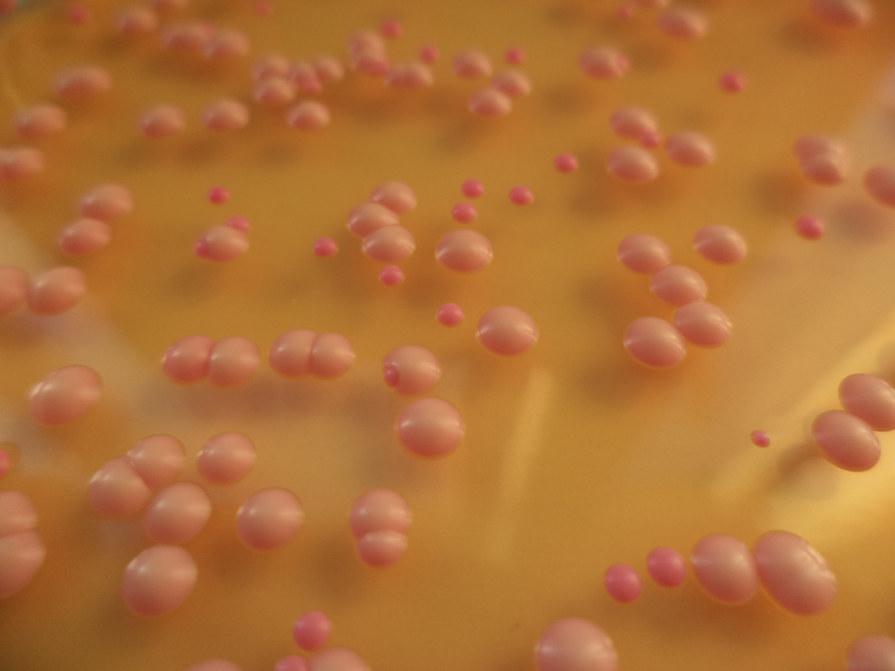 Colonies of yeast Brettanomyces bruxellensis on agar plates containing phloxine B.